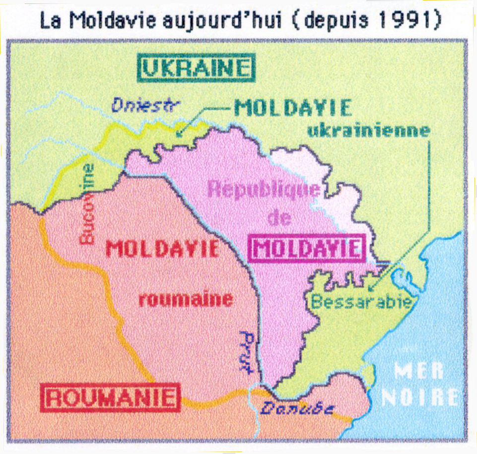 Map of Moldova/Moldavia since 1991